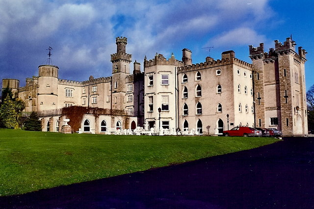 Kingscourt - Cabra Castle view from entrance driveway The castle is located to the east of R179, just a bit north of Kingscourt. This land originally included an old round tower castle called Cormey Castle, which belonged to the Foster family and was destroyed during the Cromwellian War. In 1795, In 1808, Henry Foster rebuilt Cormey Castle, but had to sell the property due to the debt incurred in rebuilding it. In 1813, Colonel Joseph Pratt bought Cormey Castle and renamed it Cabra Castle in 1820. In 1964, the Brennan family bought Cabra Castle and converted it into a 22 bedroom hotel. In 1986, an Arab group bought Cabra Castle and used it as a private residence. In 1991, the Corsadden reopened it as a hotel and eventually utilized the courtyard to add 58 bedrooms in separate buildings.